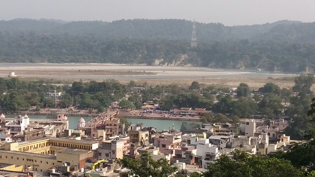 Both flows of Ganges from the way of Mansa devi